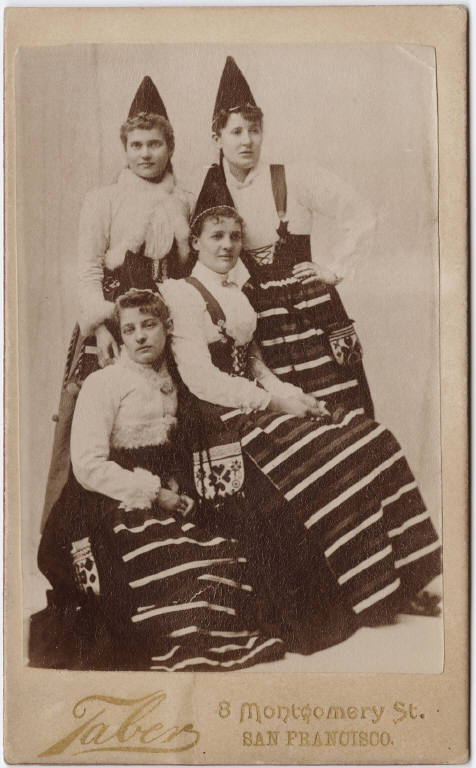 Author/Creator: Taber, I. W. (Isaiah West), 1830-1912. Part of: Carl Mautz collection of cartes-de-visite photographs created by California photographers. Physical Description: 1 photographic print cartes-de-visite, b&w approx. 9.0 x 5.7 cm. on mount 10.7 x 6.5 cm Folder or box number: Folder Taber, I. West Genre/Form: Photographs Cartes-de-visite Photographic prints Studio portraits Cite as: Yale Collection of Western Americana, Beinecke Rare Book and Manuscript Library Repository: Beinecke Rare Book & Manuscript Library, Yale University Bibliographic Record Number: 2015063 Call Number: WA Photos 357 View our Record: Permalink Flickr data on 2011-08-25: License: CC BY-SA 2.0 User: Beinecke Library